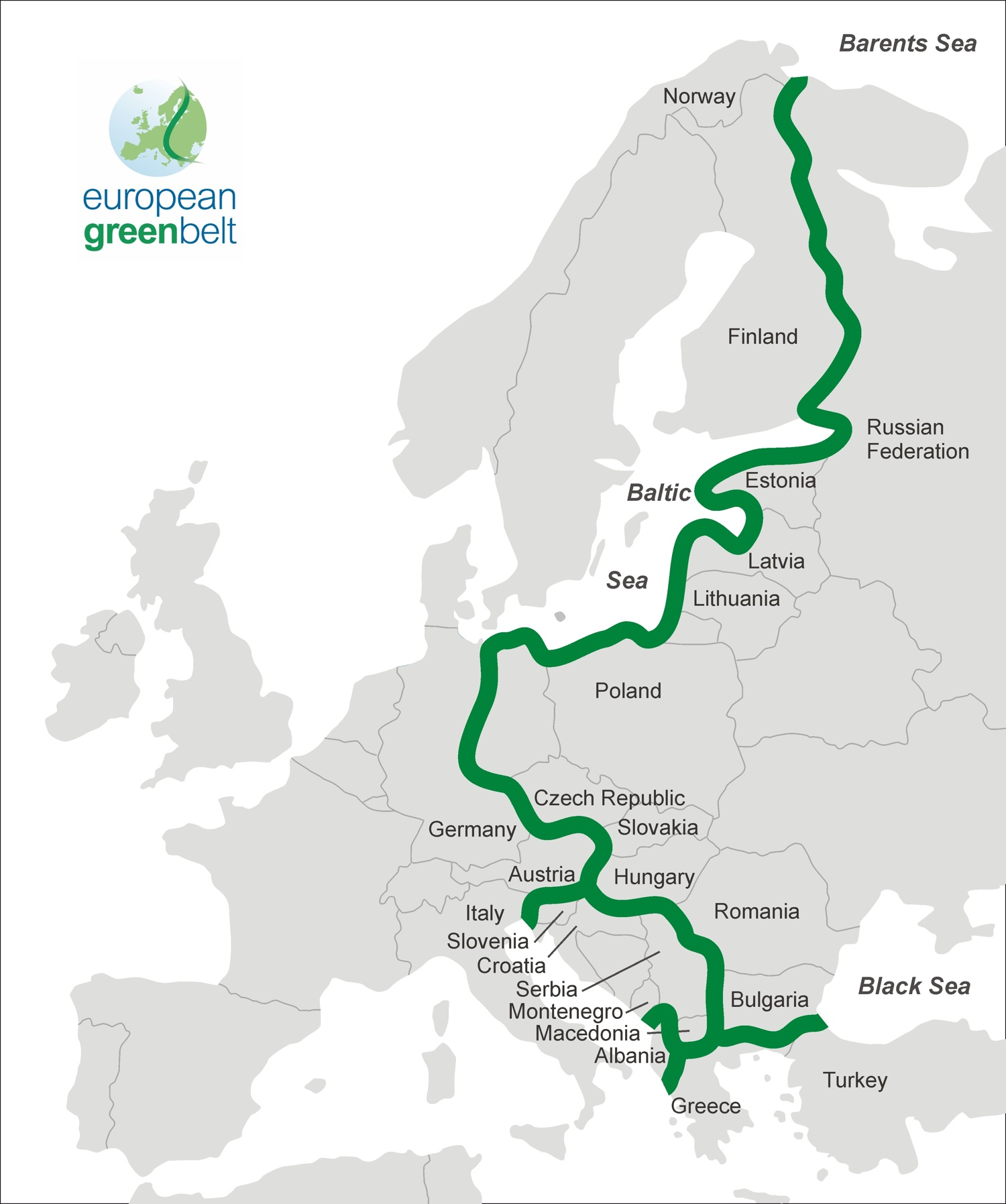 Overview Map of the European Green Belt Unknown